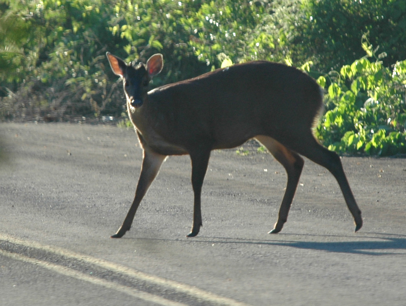 Mazama americana